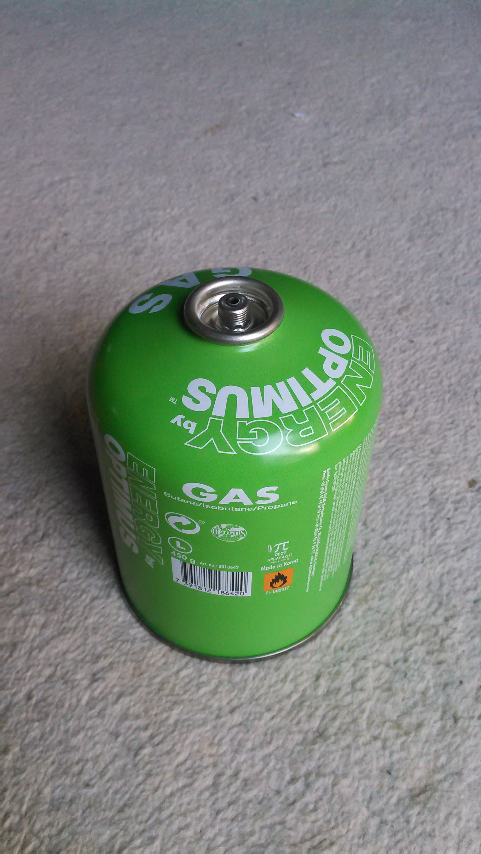 A 450 g gas cylinder containing a mixture of butane, isobutane and propane. Optimus brand, used mainly as a fuel for camping stoves.